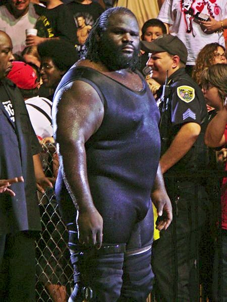 Mark Henry at a WWE Smackdown live event. Hammond Civic Center, Hammond, Indiana, September 29en:2007. Taken by me.